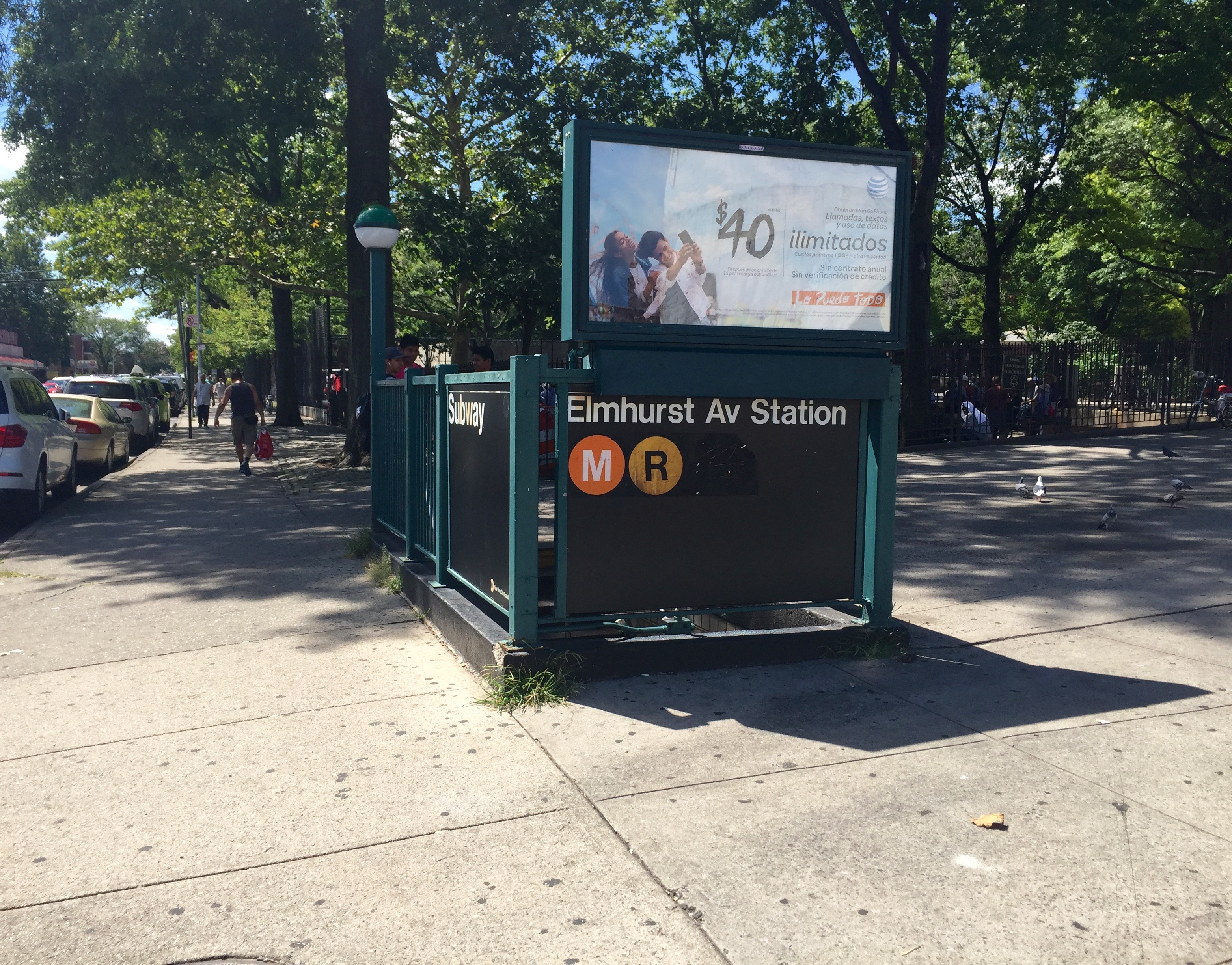 Southern entrance for Elmhurst Avenue on the M/R.